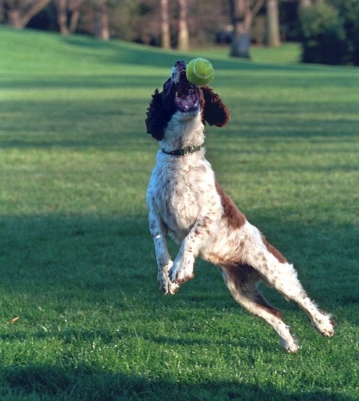 Picture of c - G.W. Bush's Dog